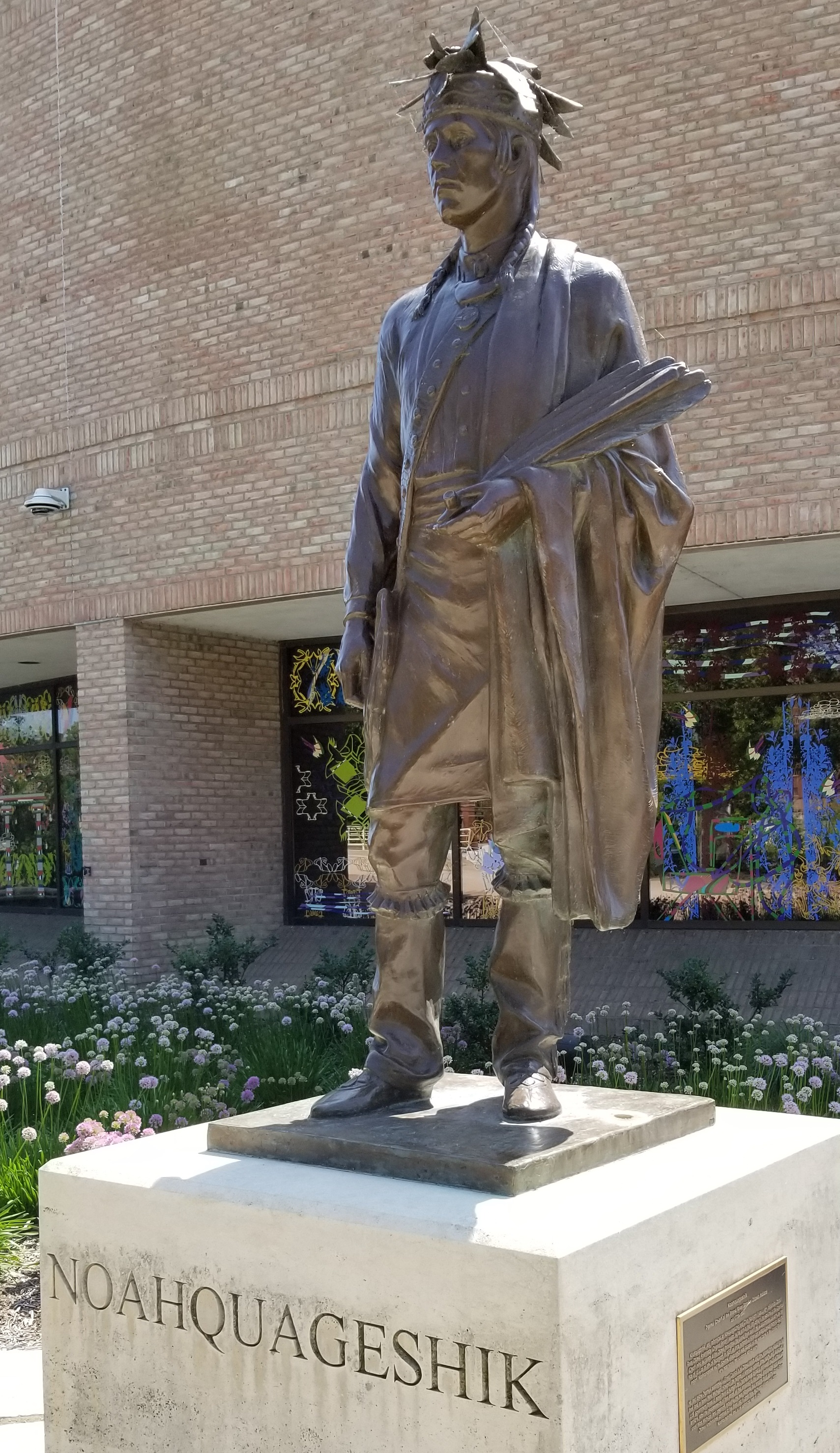 Bronze statue of Noahquageshik sculpted by Antonio Tobais Mendez in 2010. The statue is adjacent to Grand Valley State University's Eberhard Center and near the Grand River in Grand Rapids, Michigan.